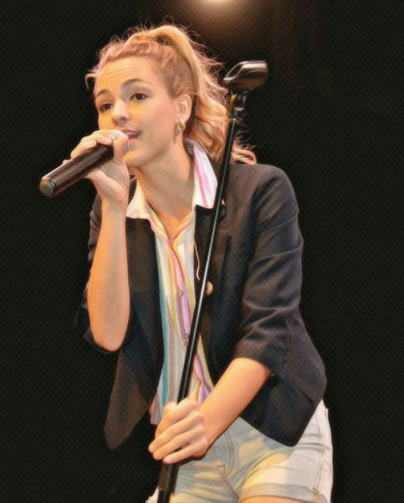 Tarver en 2011